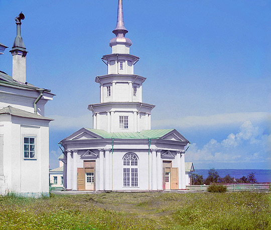 The first church of Petrozavodsk (built 1711, burnt down 1924), as photographed ca. 1912.